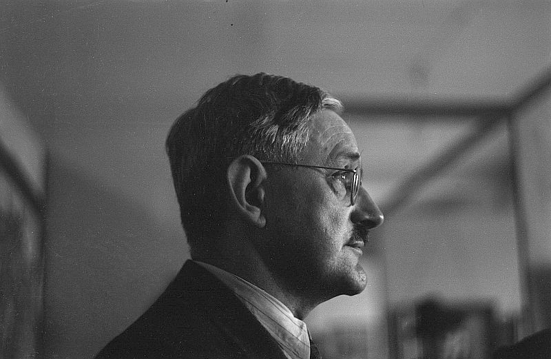 Original image description from the Deutsche Fotothek Portrait Conrad Felixmüllers